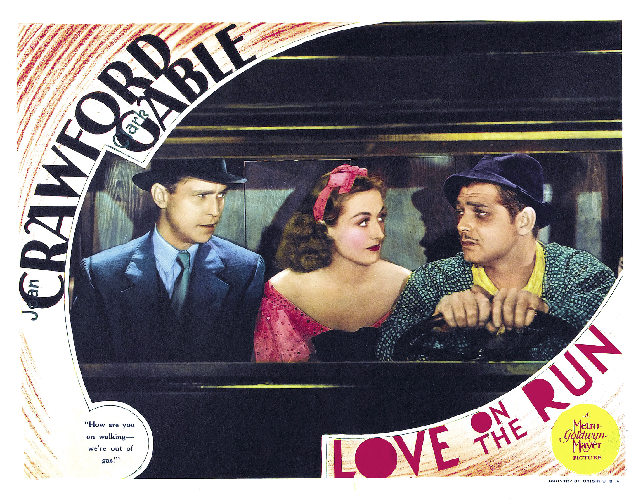 Lobby card for the 1936 film Love on the Run with Franchot Tone, Joan Crawford and Clark Gable.